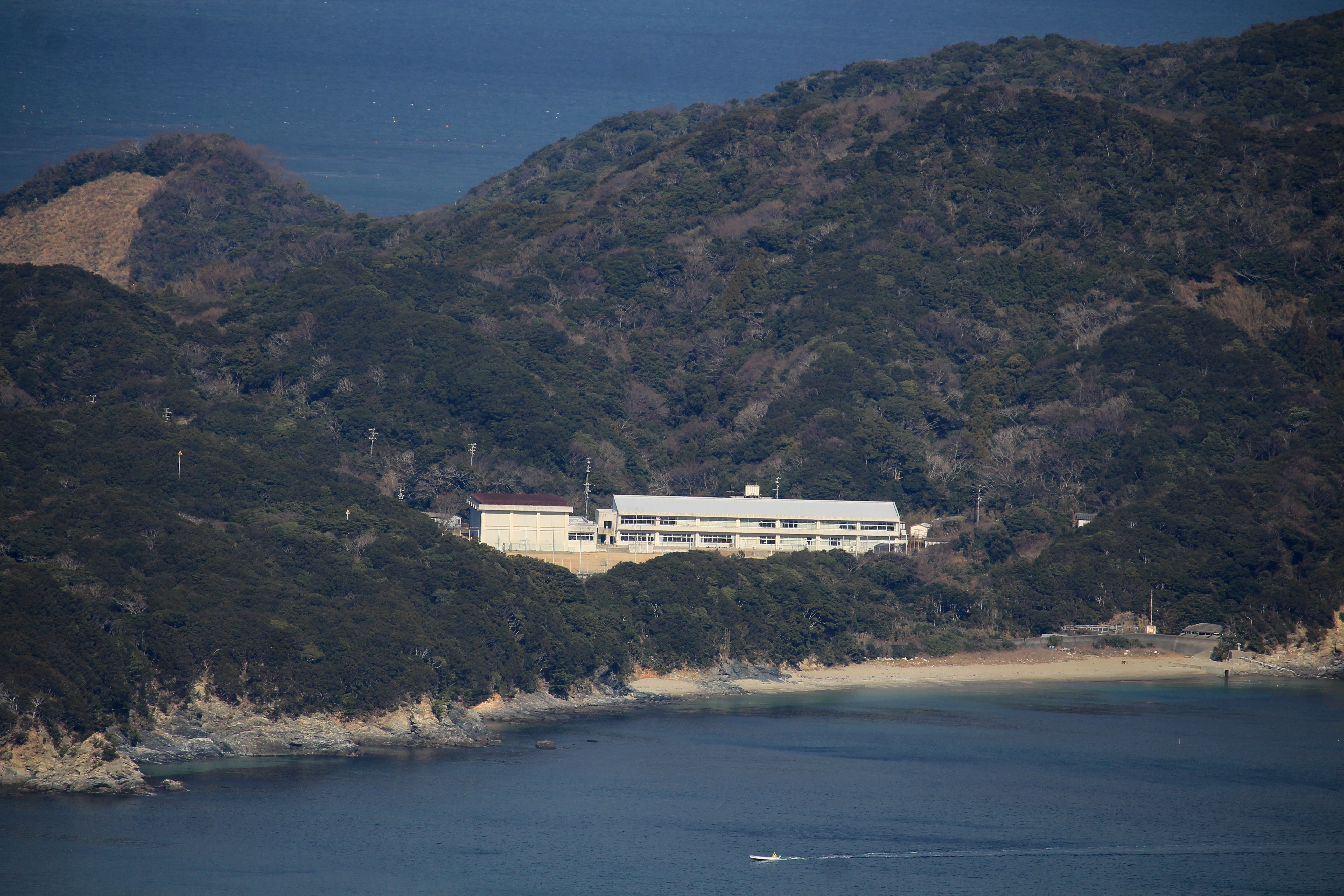 Tōshijima Junior high school seen from Suga Island in Toba, Mie prefecture, Japan.